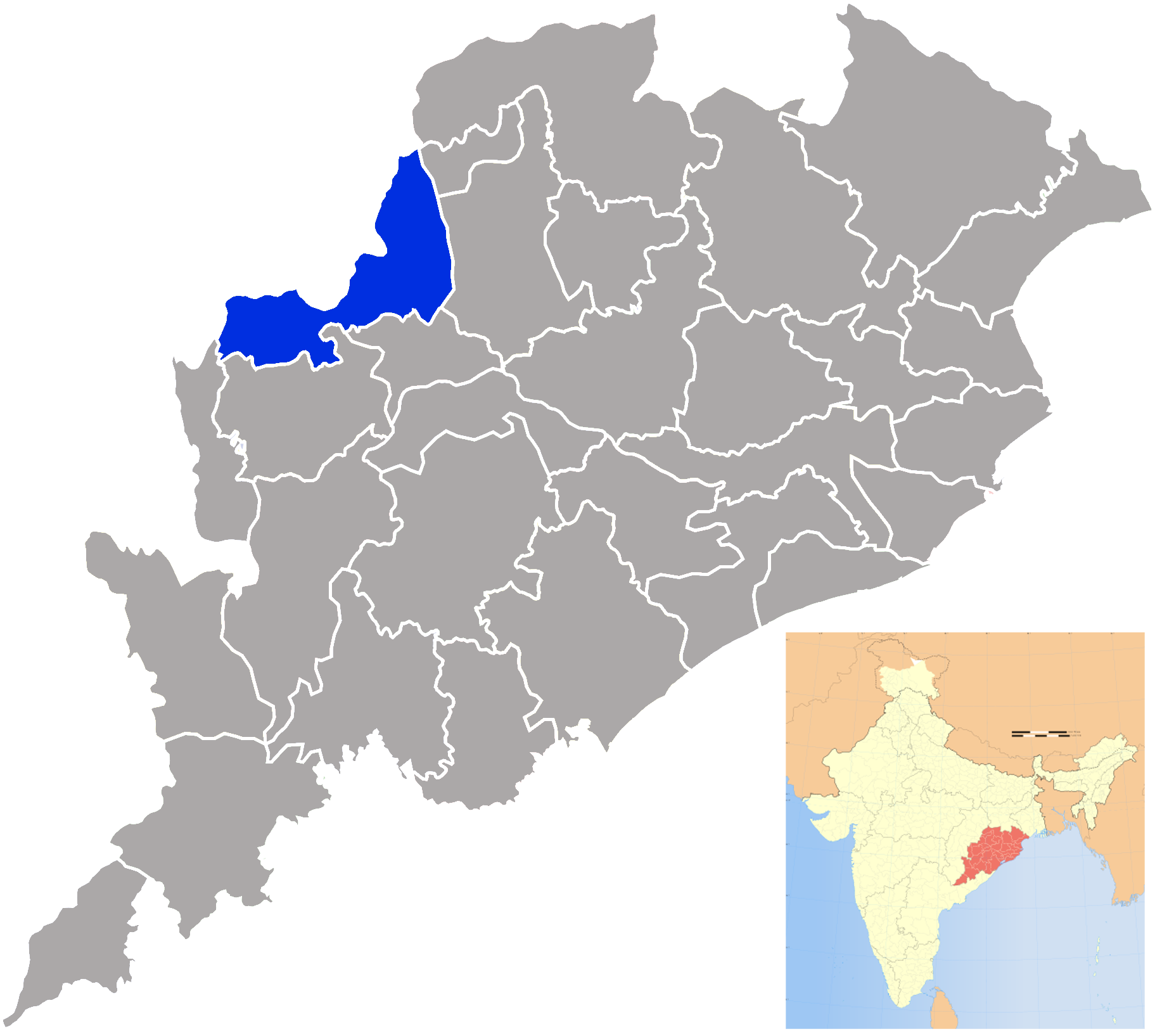 Bargarh district in Orissa